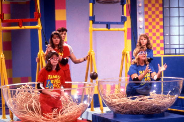 Two families competing in a Family Double Dare physical challenge, catching "meatballs" in bowls of "spaghetti."